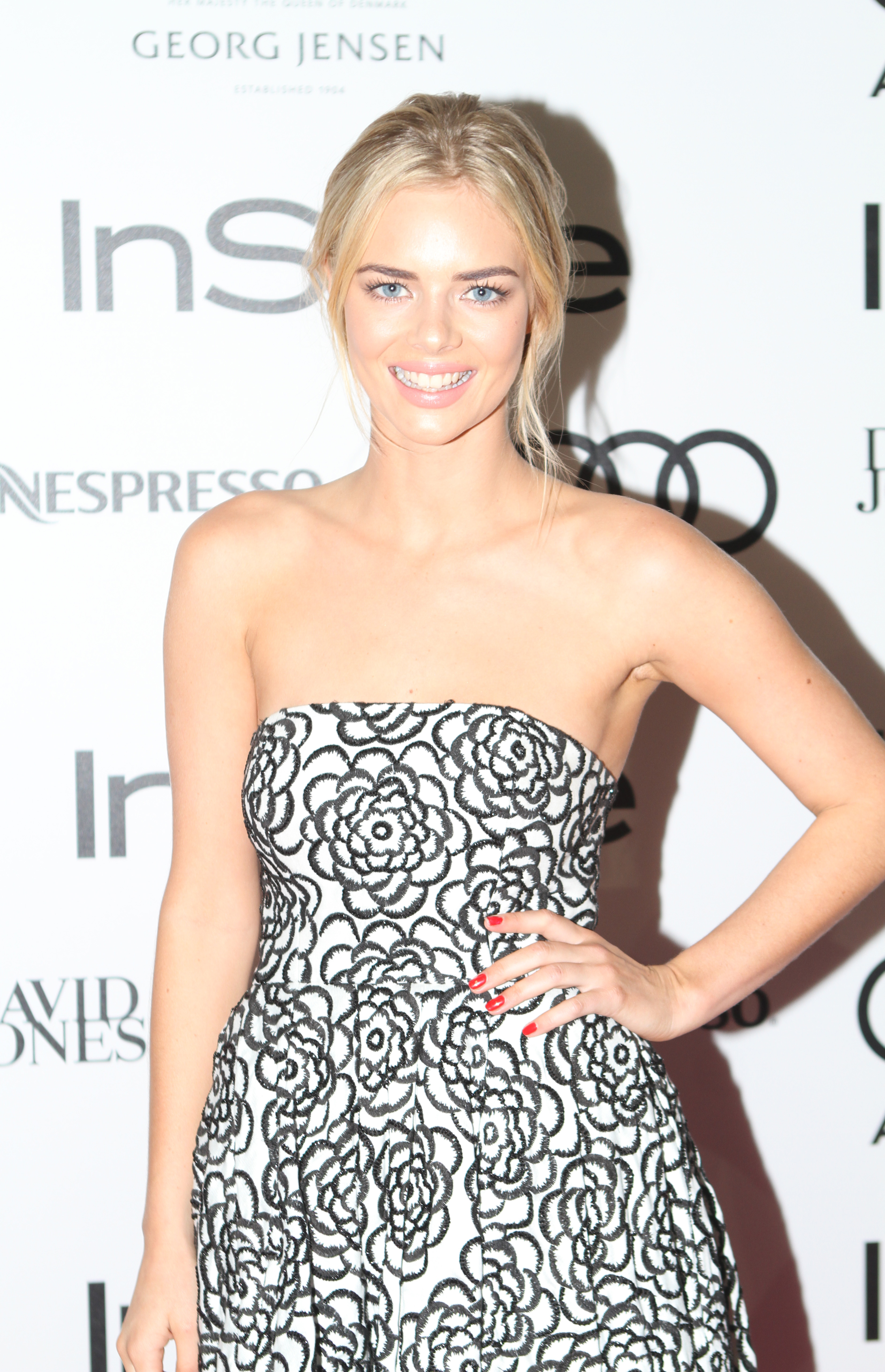 Samara Weaving at the InStyle Awards 2015